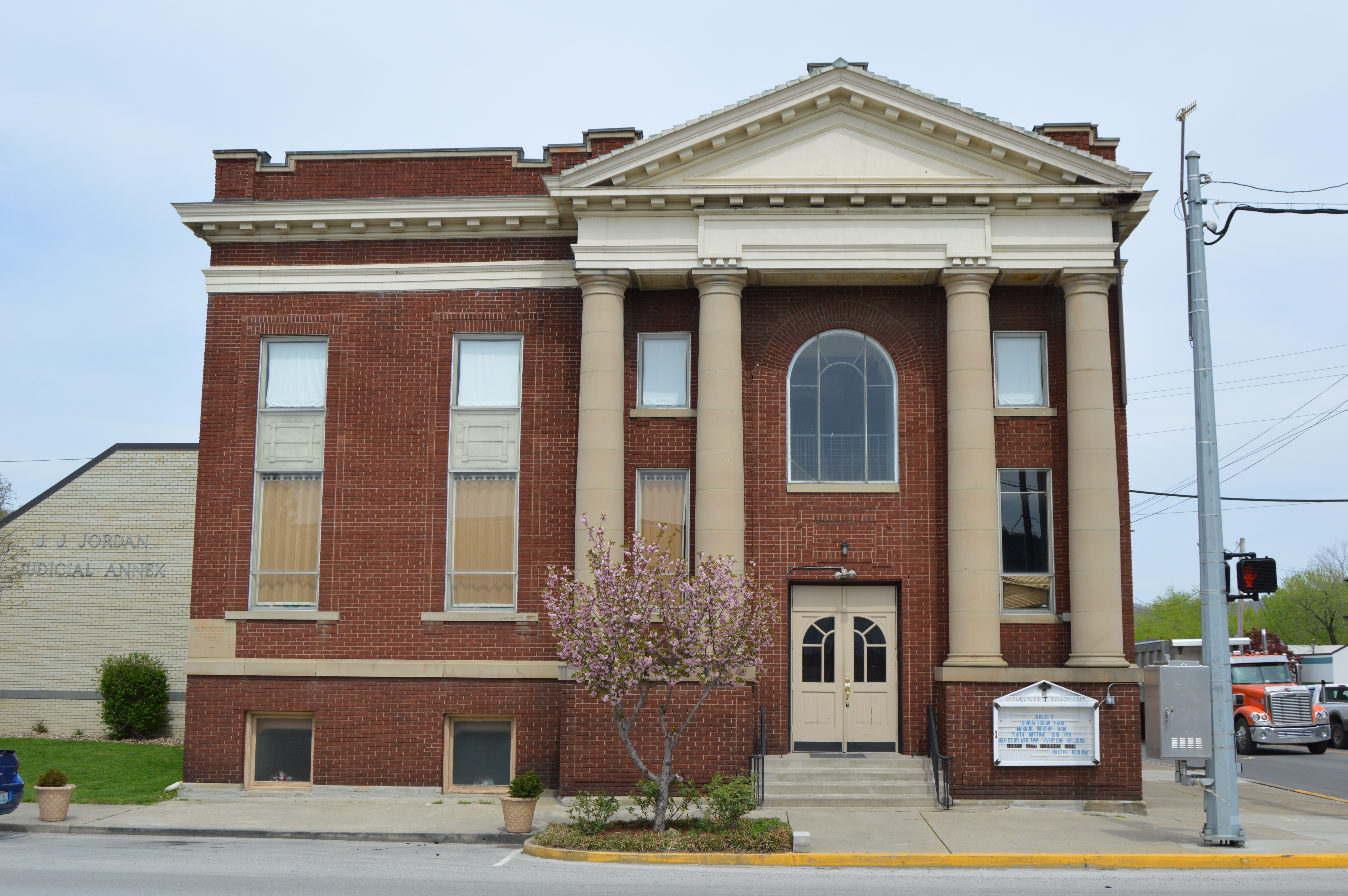 Front of the Louisa United Methodist Church, located on the northeastern corner of the junction of Madison Street (Kentucky Route 3) and Main Cross Street in Louisa, Kentucky, United States. Built in 1916, it is listed on the National Register of Historic Places.